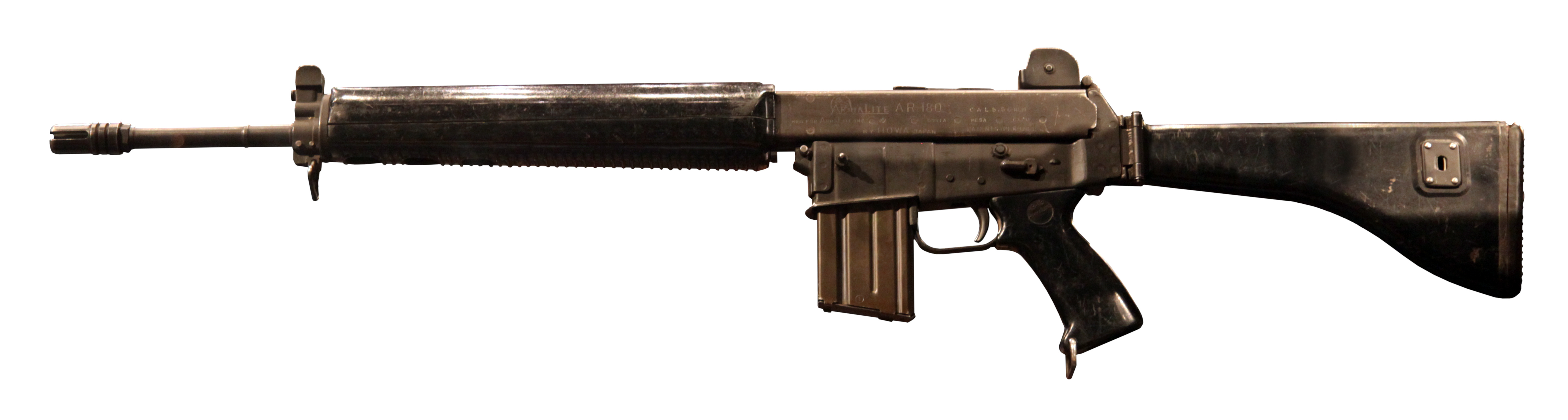 Armalite 18 assault rifle on display at the Parachute Regiment and Airborne Forces Museum